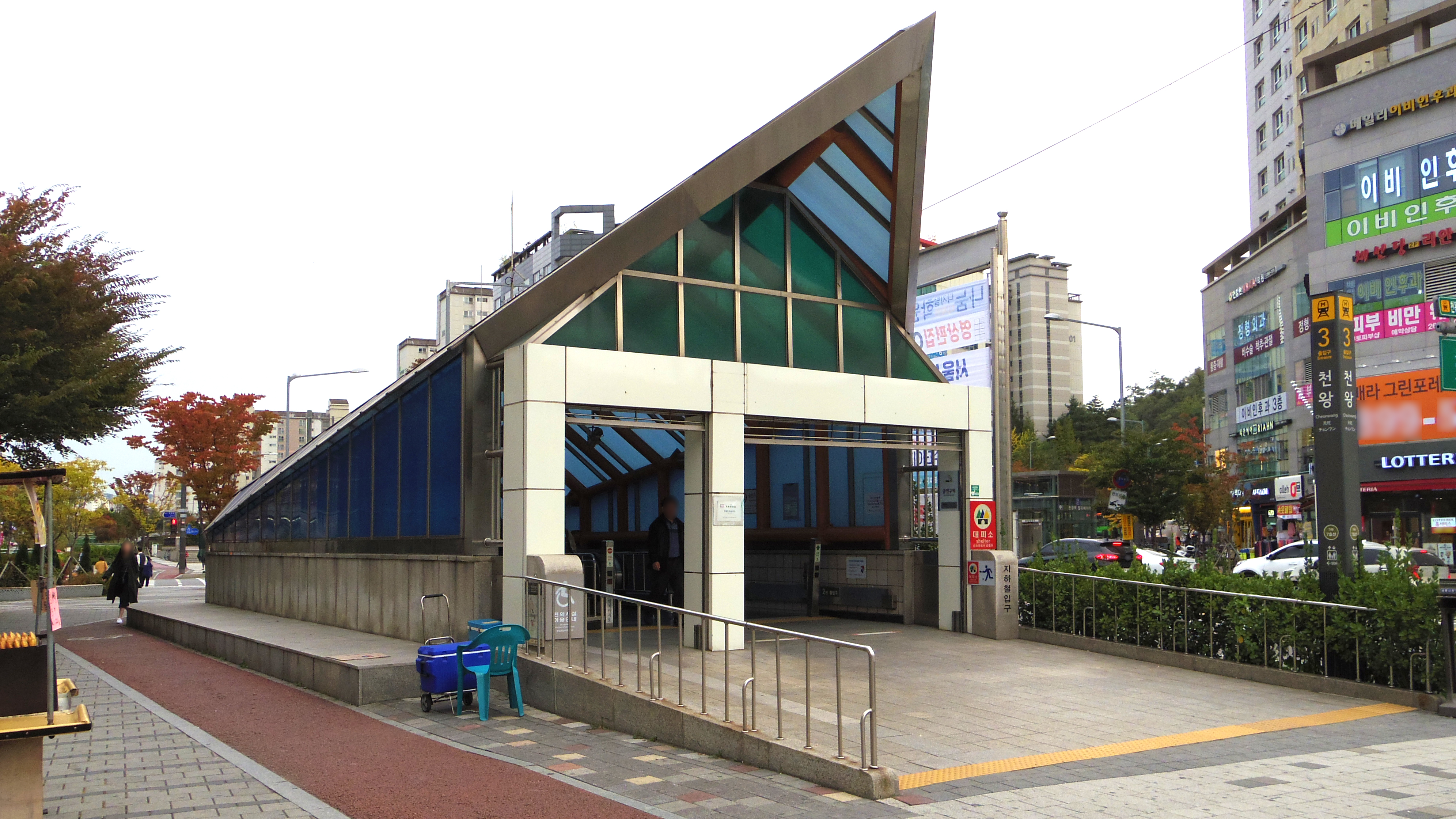 The no.3 entrance to Cheonwang Station on the Seoul Metro Line 7 in Guro-gu, Seoul, Republic of Korea(South Korea)